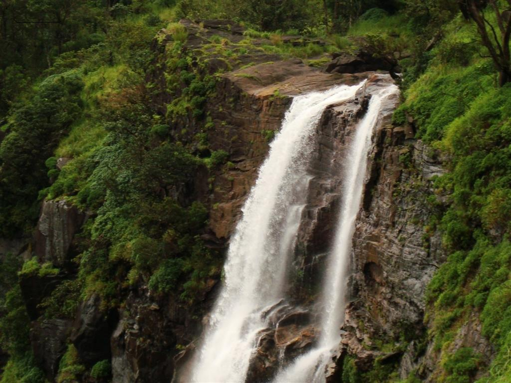 This is the picture of Bandaje Falls, located on the western ghat Karnataka